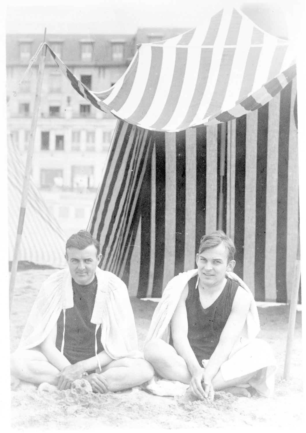 F.O. Matthiessen Papers/Beinecke 10560792. F.O. “Matty” Matthiessen, and Russell Cheney, Normandy, summer 1925